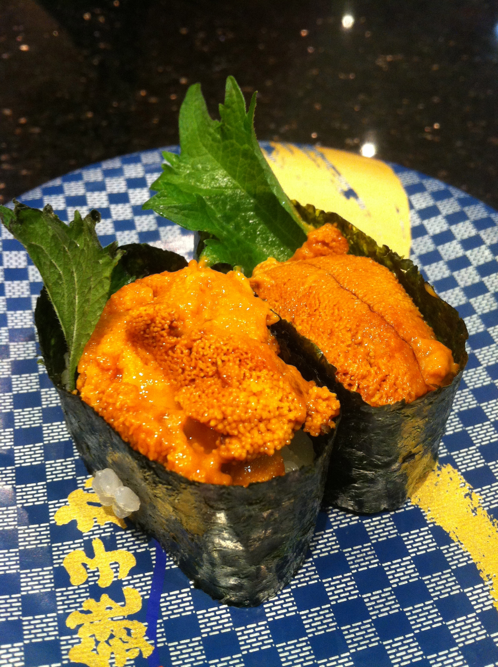 Uni gunkan-maki ("boat-shaped" sushi filled with sea urchin roe), served at a kaitenzushi restaurant in Kameido, Tokyo.